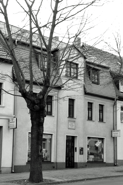 Breiter Weg 30, Lutherstadt Eisleben, Frontview